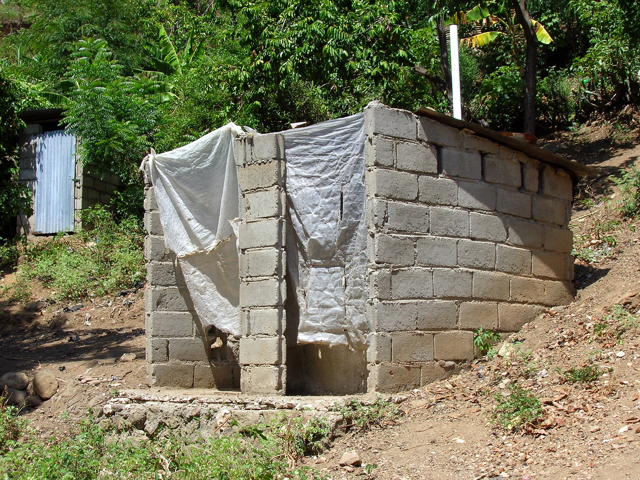 A two-chamber latrine serving 3 families in the area of Mansui, Cap-Haitien, Haiti.